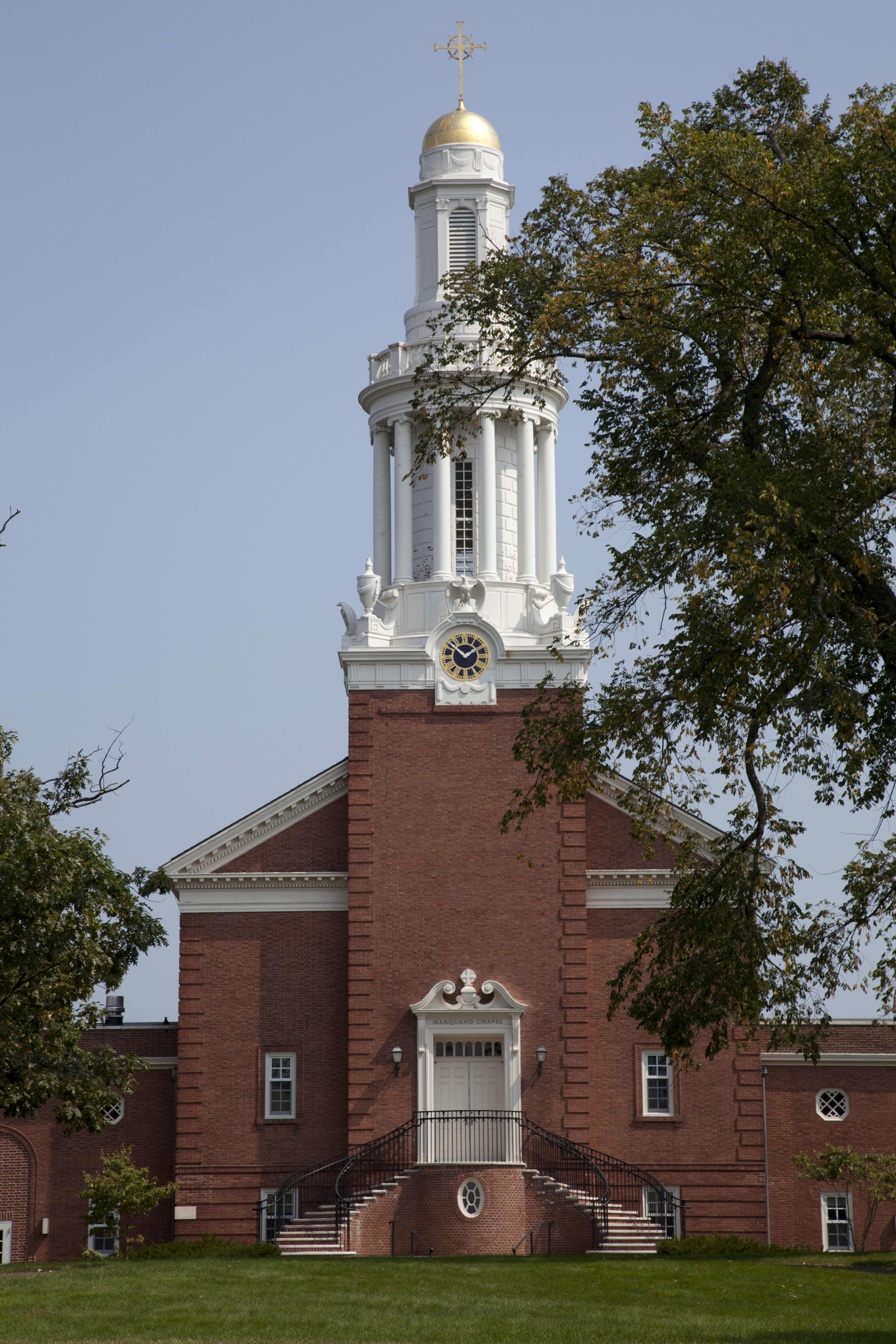 Marquand Chapel, Yale Divinity School, New Haven, CT